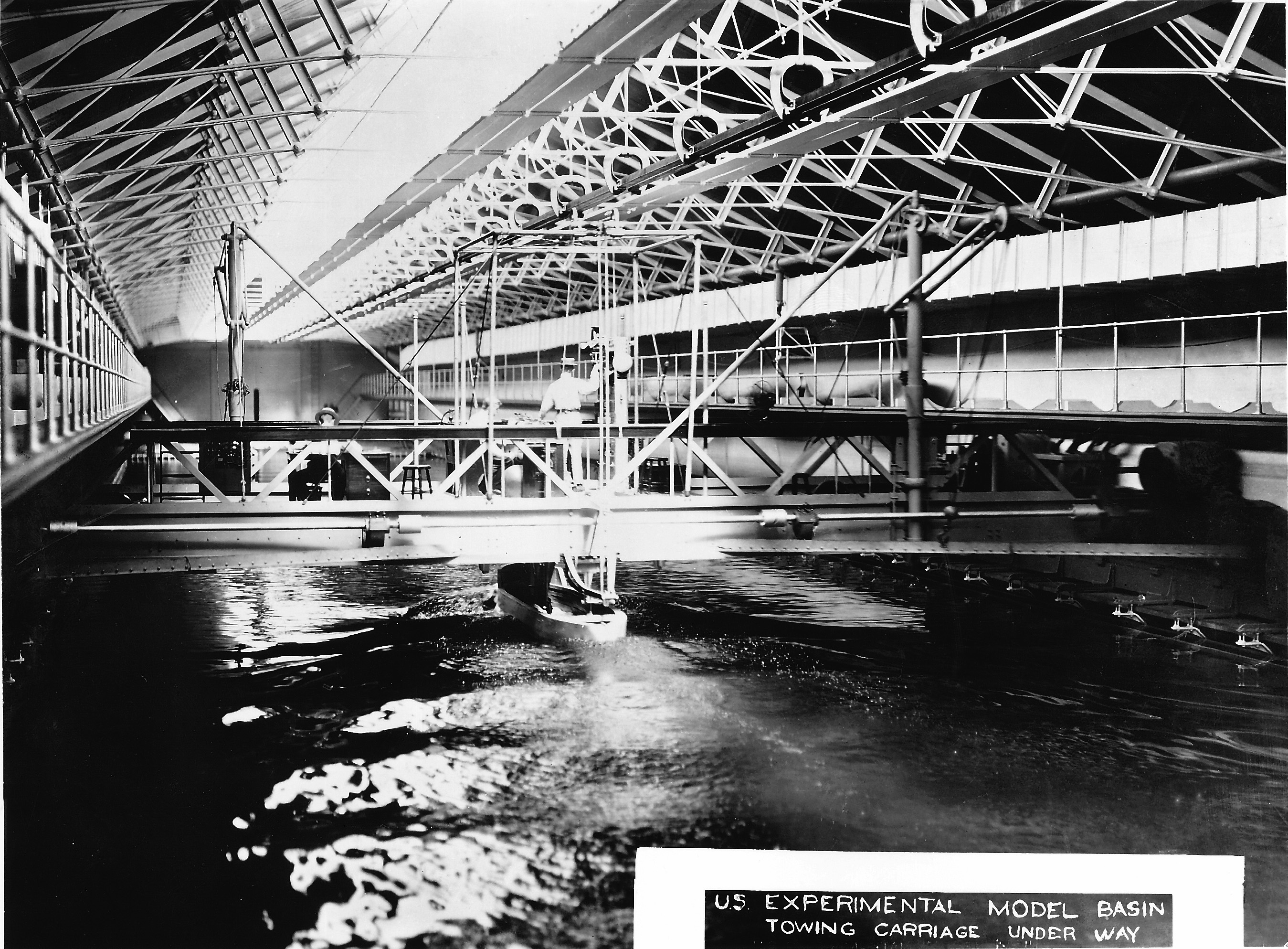 Experimental Model Basin, Washington Navy Yard, Washington, DC - interior view, c. 1900. This was the first model basin (towing tank) for the United States Navy.